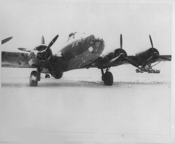 36th Bombardment Squadron - B-17E Flying Fortress, Amchatka Army Airfield, Alaska